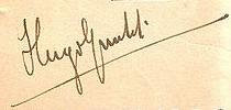 autograph Hugo Gunckel